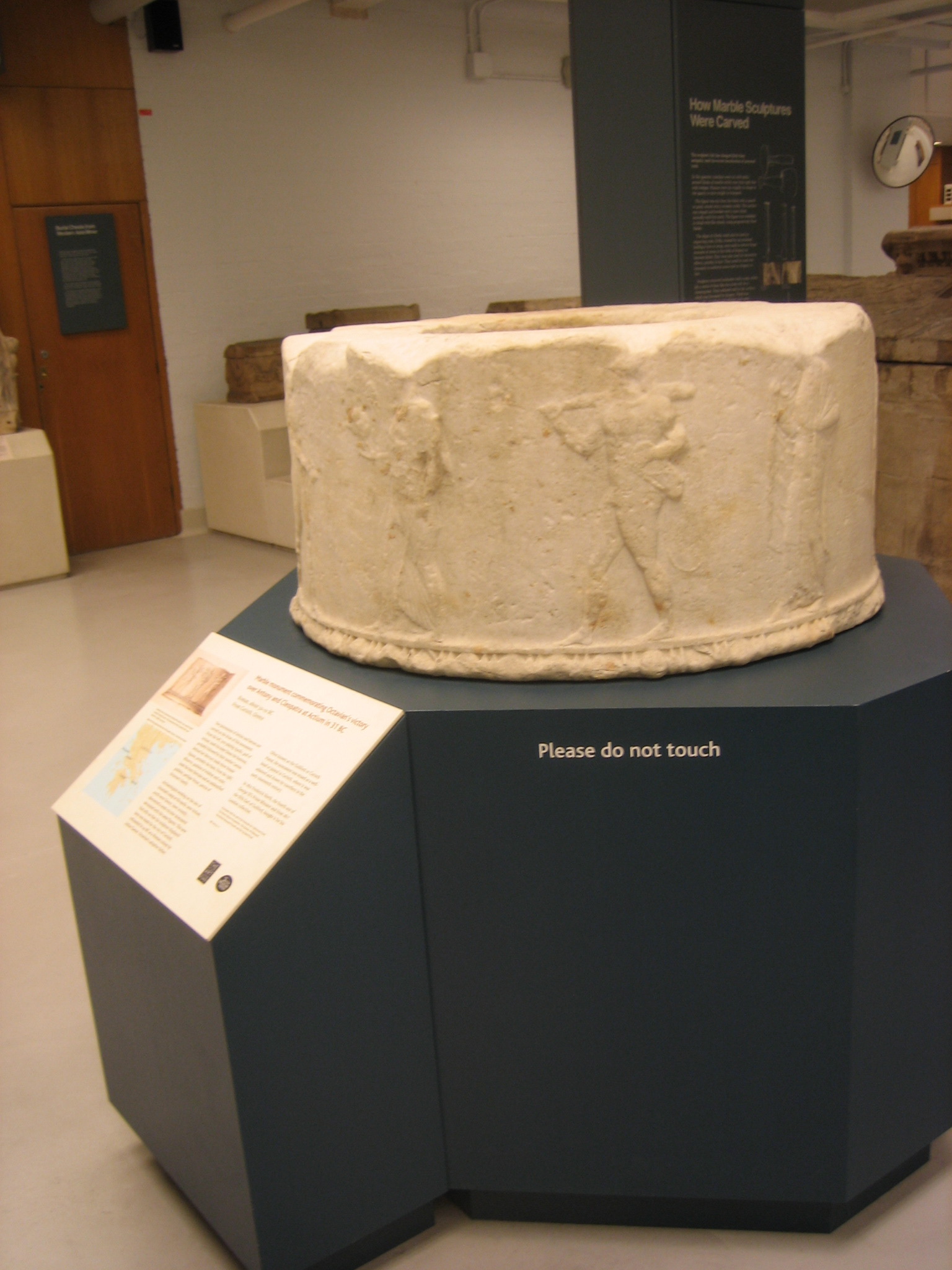 The Guilford Puteal or Corinth Puteal — a Pentelic marble Ancient Roman Wellhead (puteal). The puteal was discovered in Corinth, and is now in the collection of the British Museum Native nameBritish MuseumLocationLondonCoordinates51° 31′ 10.16″ N, 0° 07′ 37.28″ W Established1753Web page control : Q6373 VIAF: 134857252 ISNI: 0000 0001 1941 5845 ULAN: 500125180 LCCN: n79107735 NLA: 35022119 WorldCat institution QS:P195,Q6373